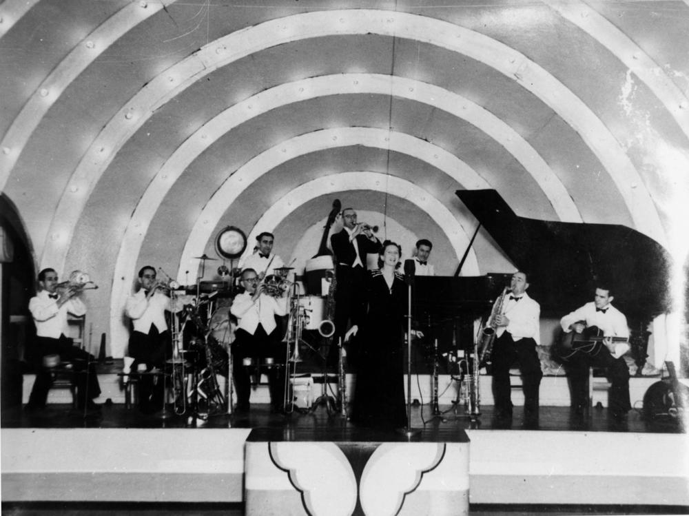 Billo Smith's Dance Band performing at the Trocadero Dance Pallais, Brisbane, ca. 1943 At the microphone, Mrs. Billo (Nessie) Smith singing with Billo Smith's Dance Band at the Trocadero Dance Pallais in Melbourne Street, South Brisbane, around 1943. Other players L to R: Jack Blakeway, Eddie Cousins, Steve Grice, Albert "Robbie" Robinson, Billo Smith snr Bert Waller, Len Custance, Vic Watts.